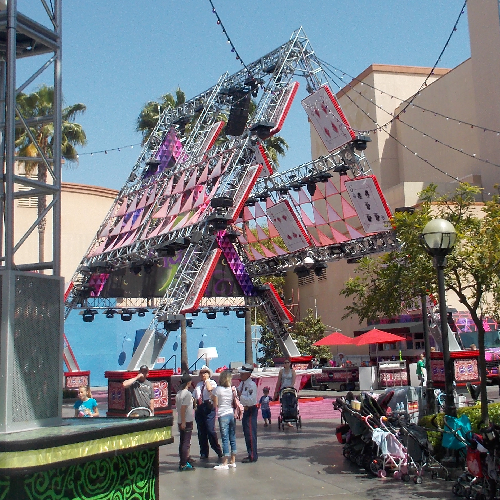 The set of Disney California Adventure's Mad T Party during the daytime.